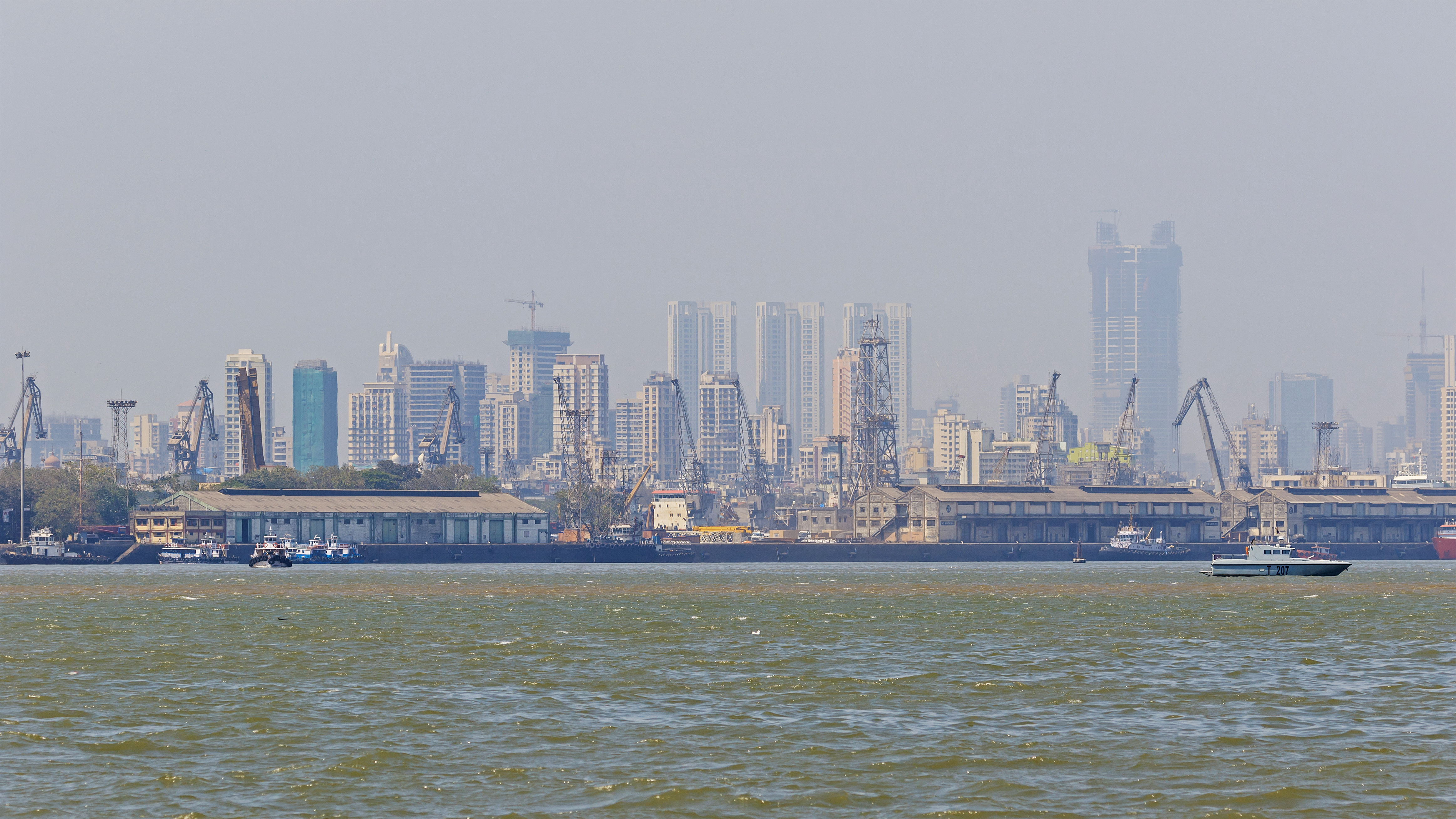 View of Mumbai Harbour. Taken from Mumbai-Elephanta ferry. Maharashtra, India.